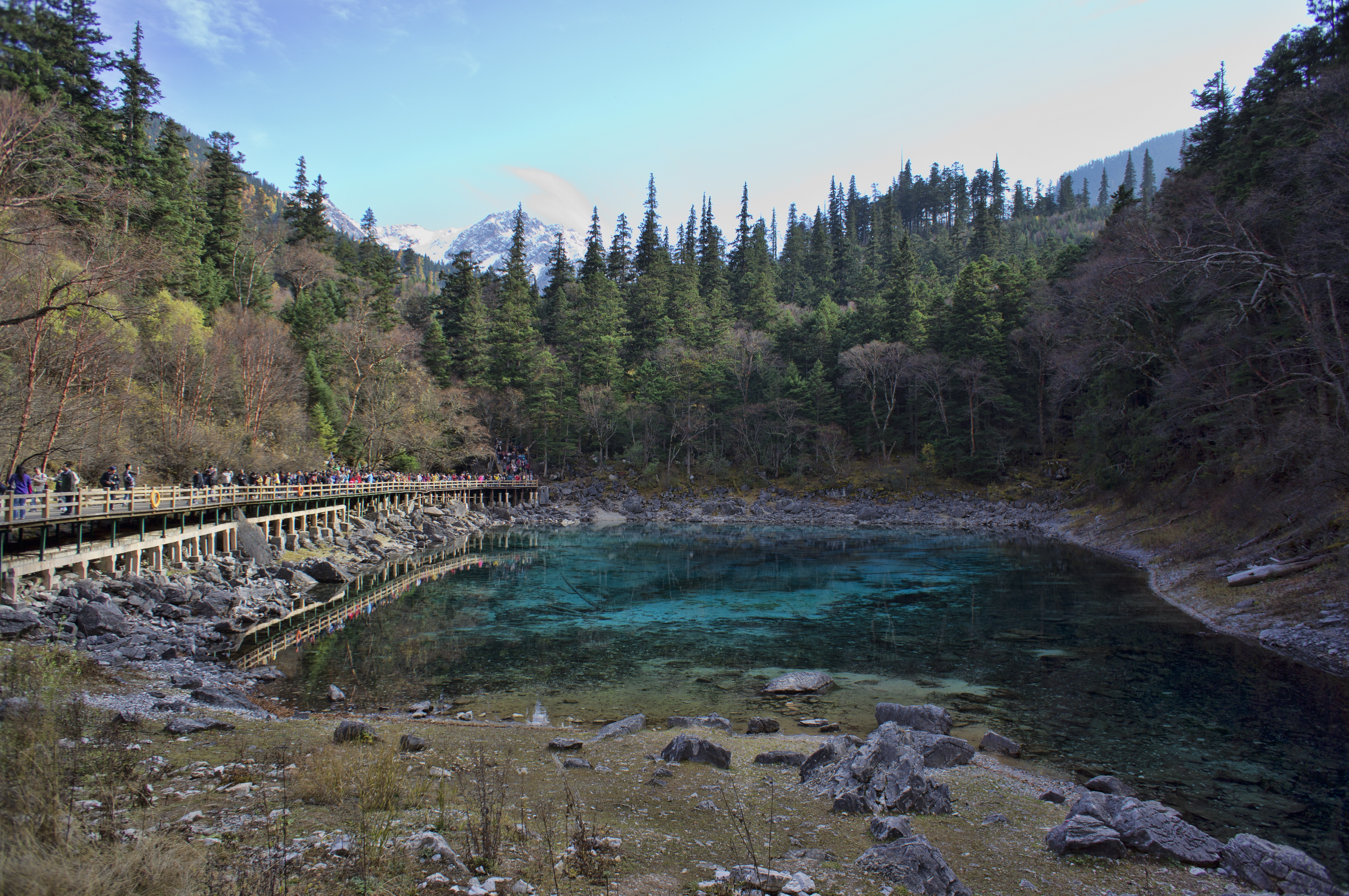 jiuzhaigou valley national park sichuan china fall autumn 2011 five colour pond 五彩池, Wǔcǎi Chí zechawa valley 则查洼沟